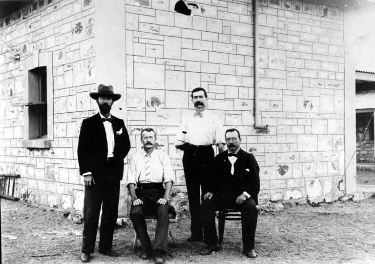 Staff at the Alice Springs Telegraph Station. From left to right: Mr P. Squire, Pat Moore, Mr B.W. Harris and Thomas Bradshaw. PH0764/0005